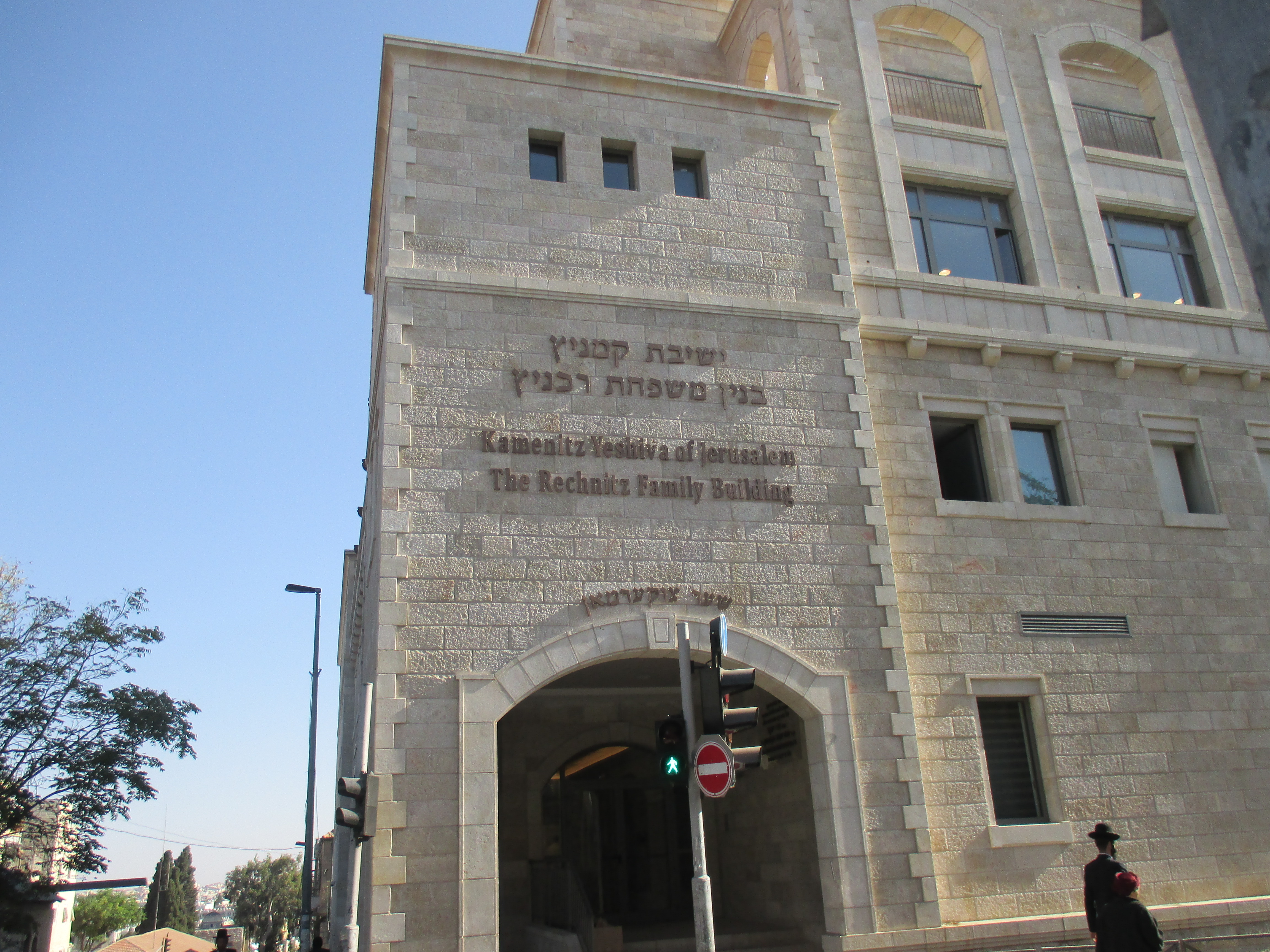 Jerusalem, Yekhezkel st - Yeshiva Kamenitz, Rechnitz Family Building